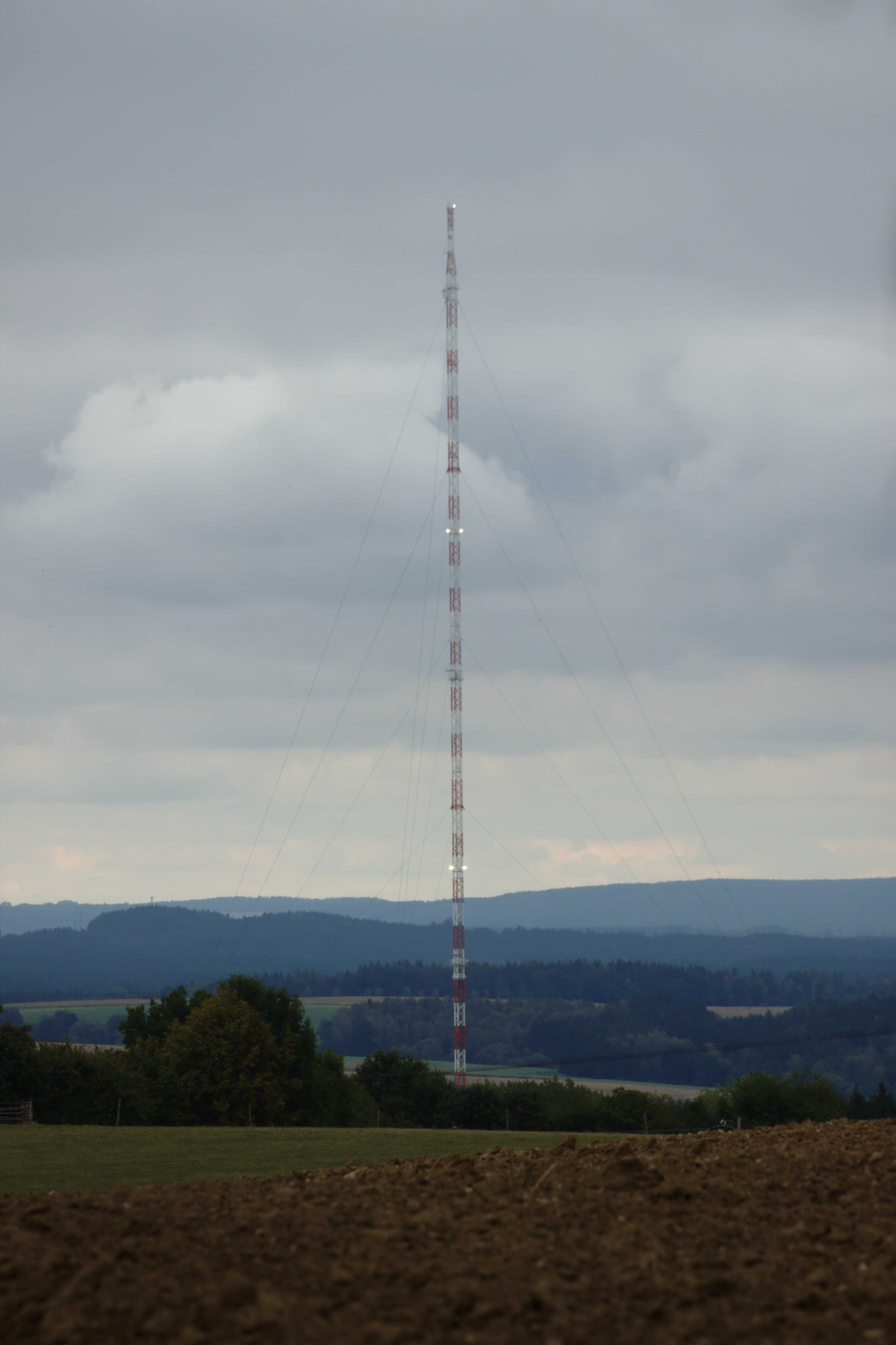 A transmittter near the village of Petrovsko, Vysočina Region, CZ